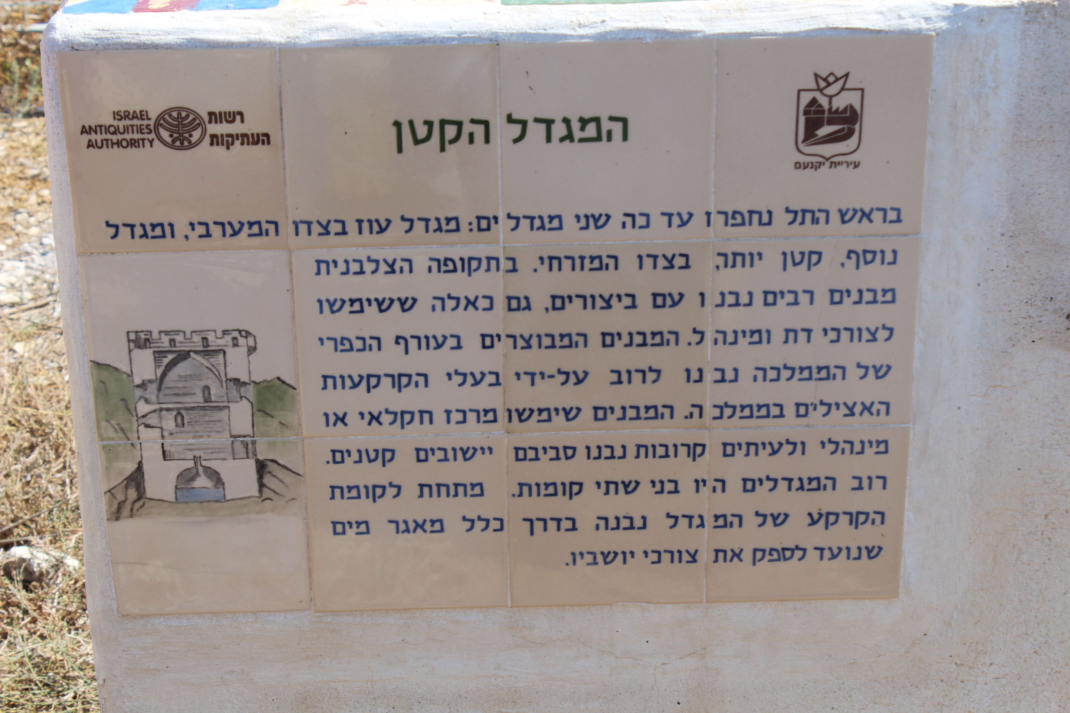 Crusader period remains - the smaller, northern tower,Tel Yokneam The site's ID in Wiki Loves Monuments photographic competition is 16-0240-100